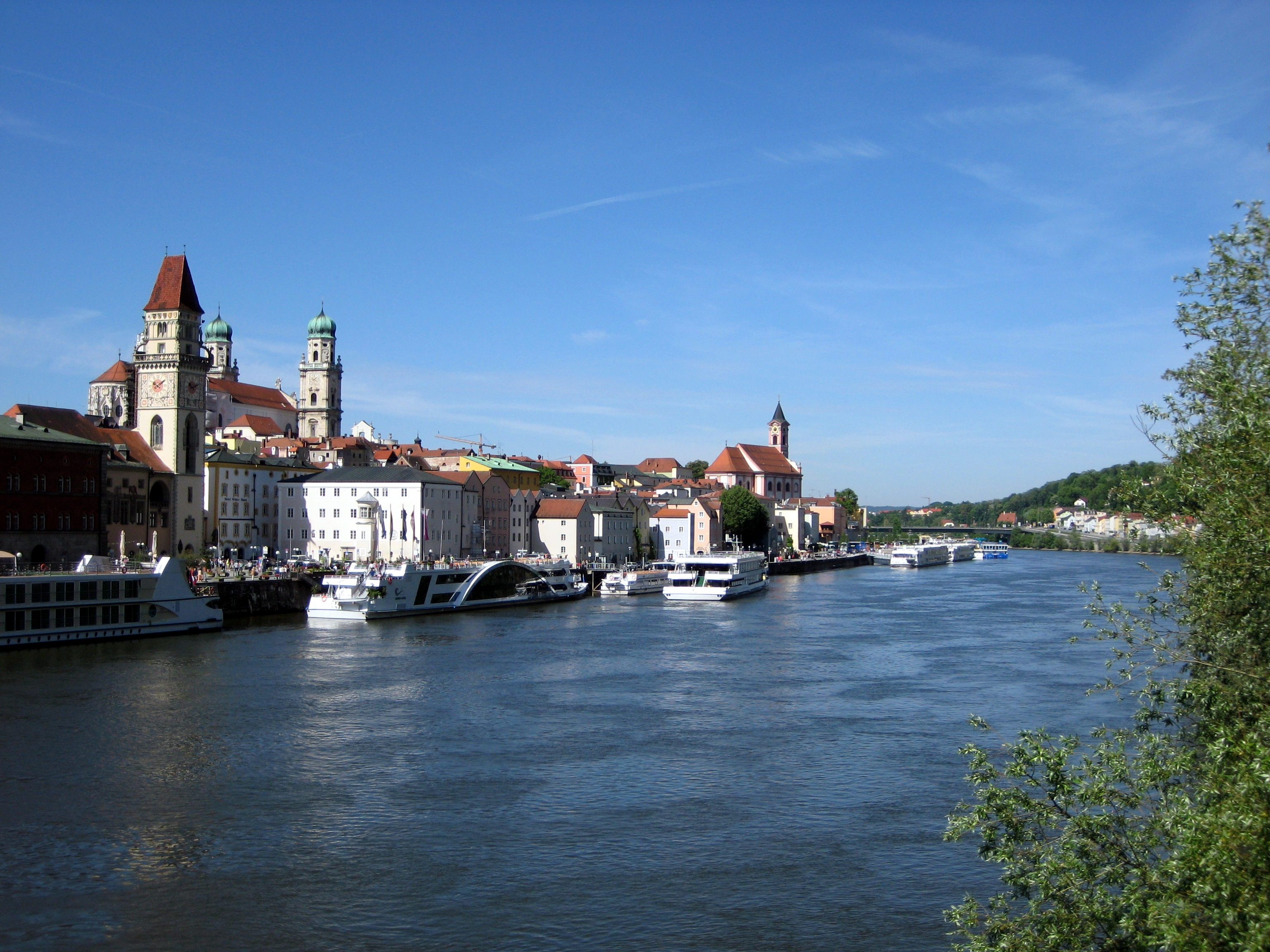 The Old Town of Passau at the Danube